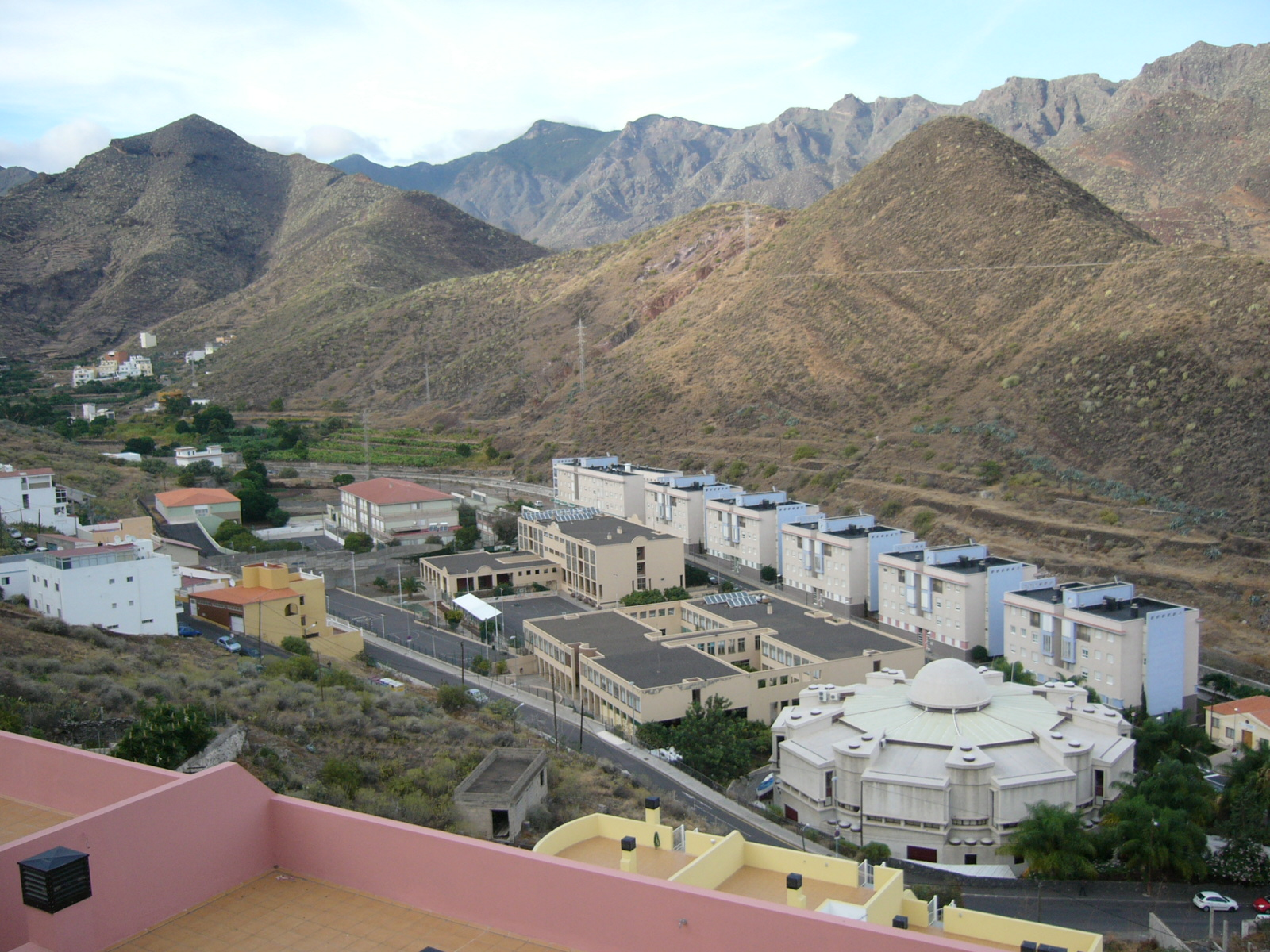 El Cercado, San Andrés (Tenerife)